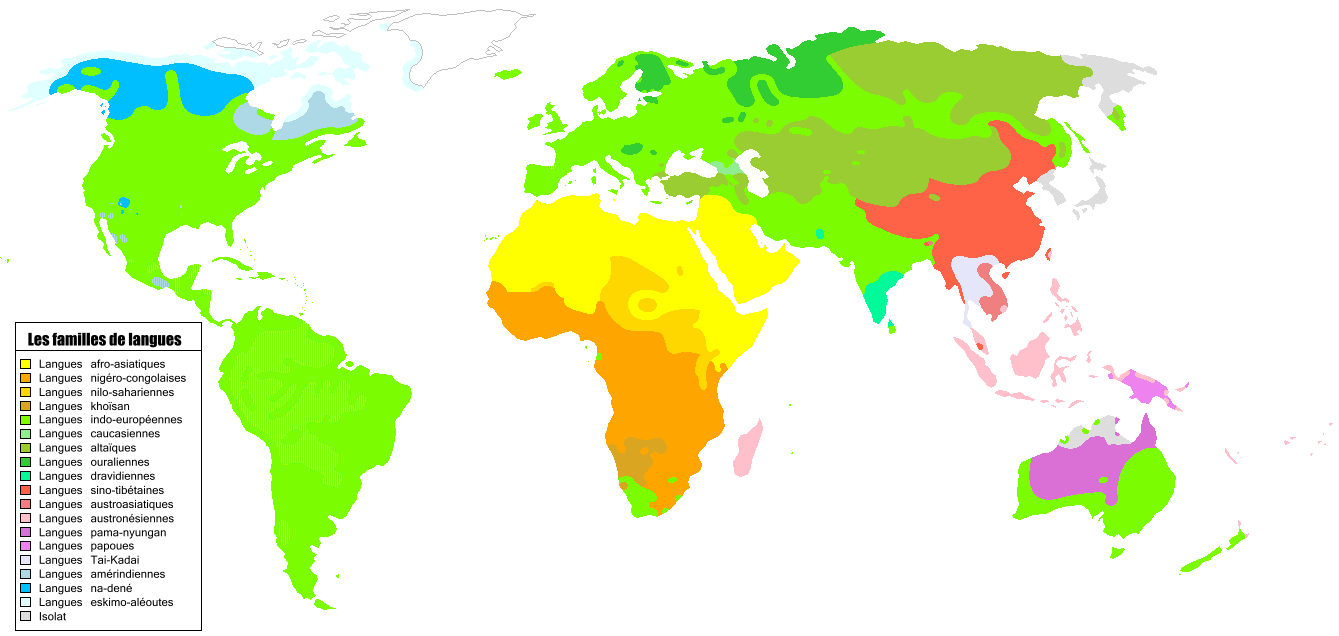 Traduction de/translation of Image:Human Language Families (wikicolors).png. La légende est en police "karstika", taille 18.